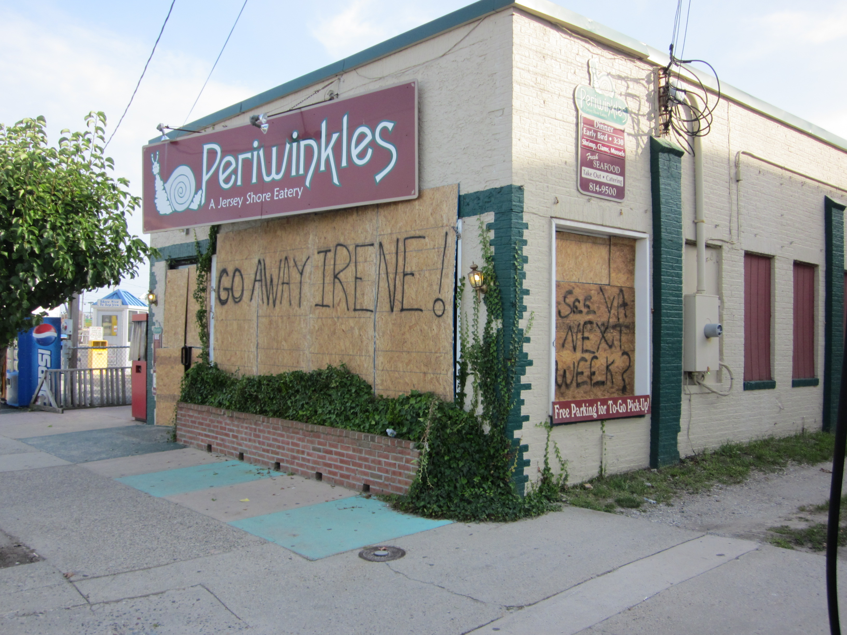 A restaurant boards up before the arrival of Hurricane Irene in Ocean City, New Jersey